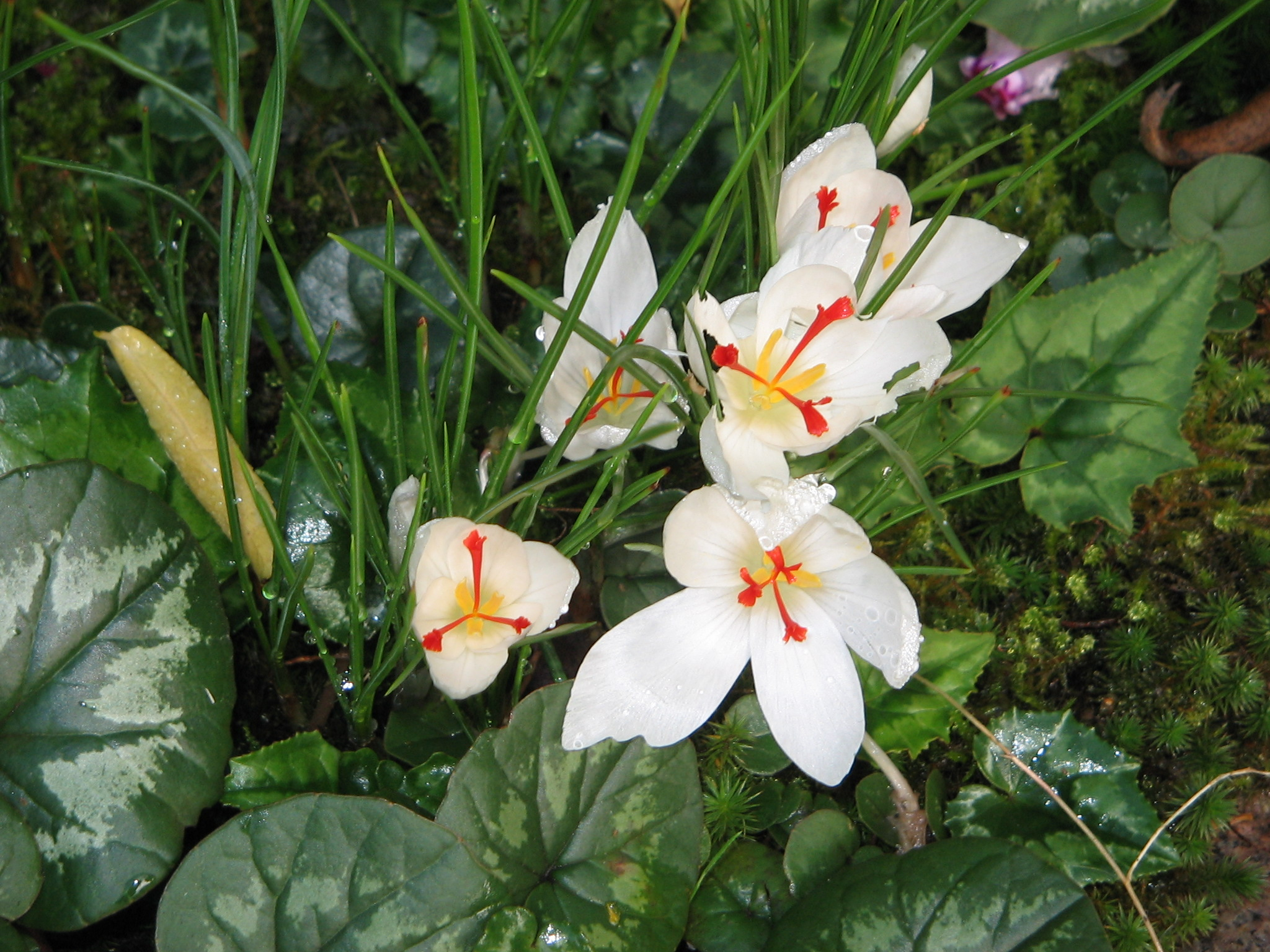 Crocus cartwrightianus 'Albus' in my garden, among the leaves of Cyclamen coum and Cyclamen hederifolium